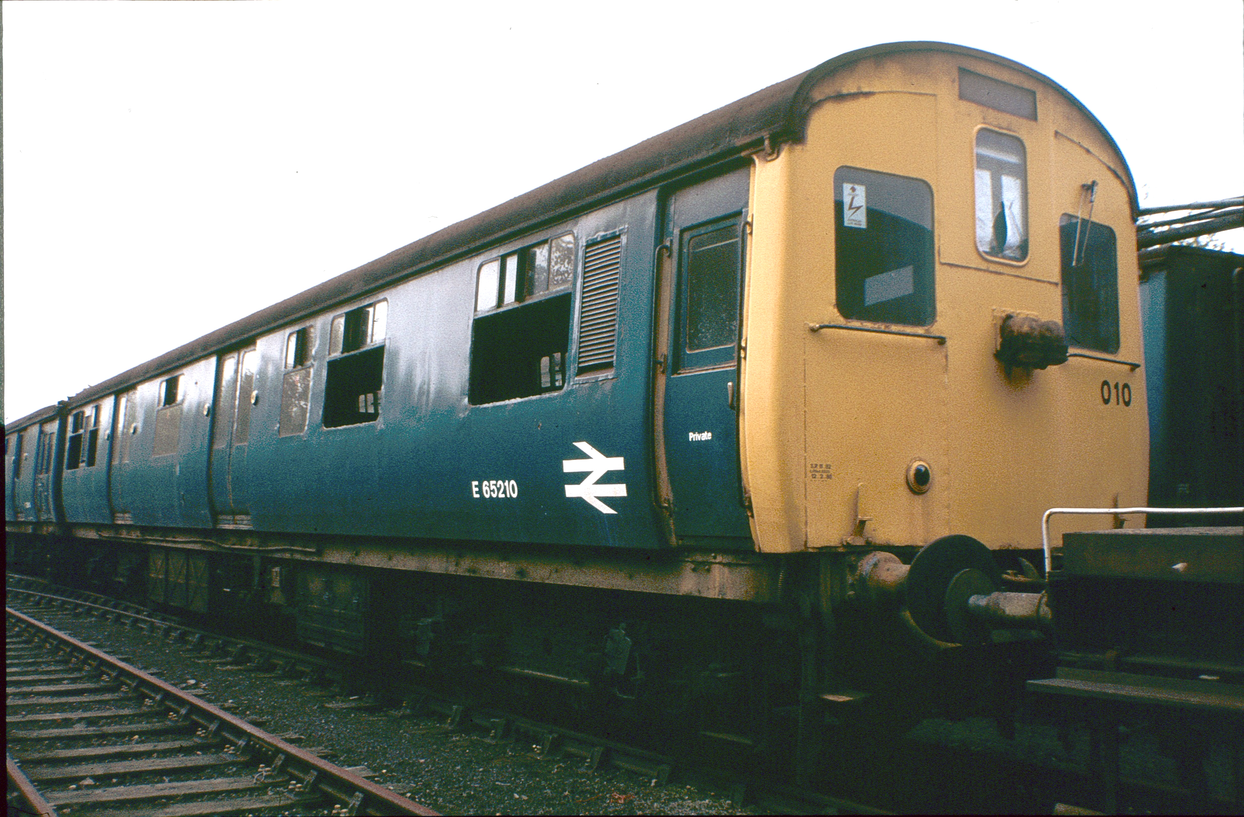 Late 1982 - Tipped off that they were being stored in sidings in Colchester pending disposal. Like several enthusiasts took pictures kindly unchallenged but unfortunately there was an armed raid for copper etc. within a ouple of days of these pictures and a railman was hurt. Suspect many visited them. I had been travelling regularly on these from 1956 to 1967 between Romford and Seven Kings with occasional trips to Liverpool Street until their withdrawl.